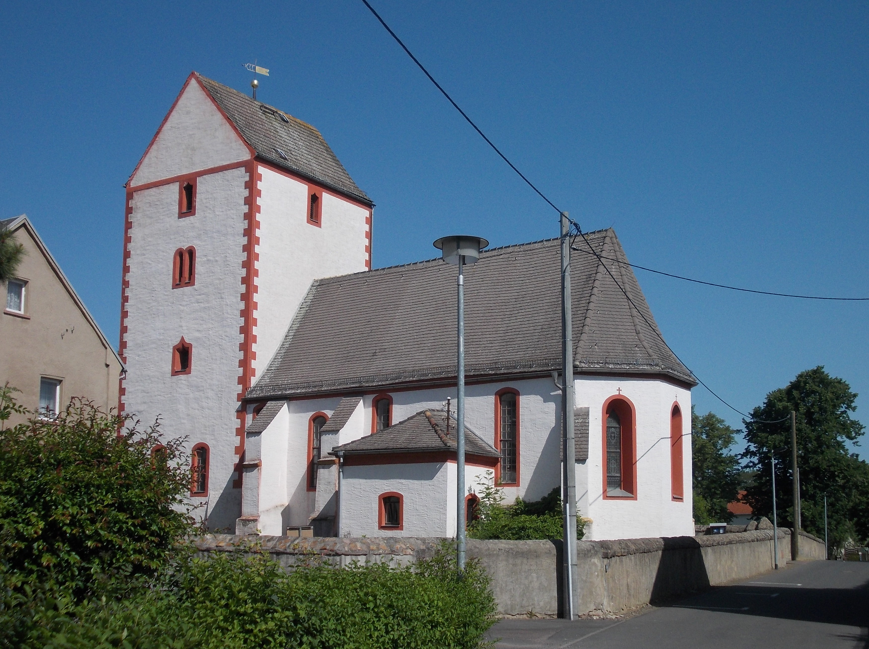 Pausitz church (Bennewitz, Leipzig district, Saxony)